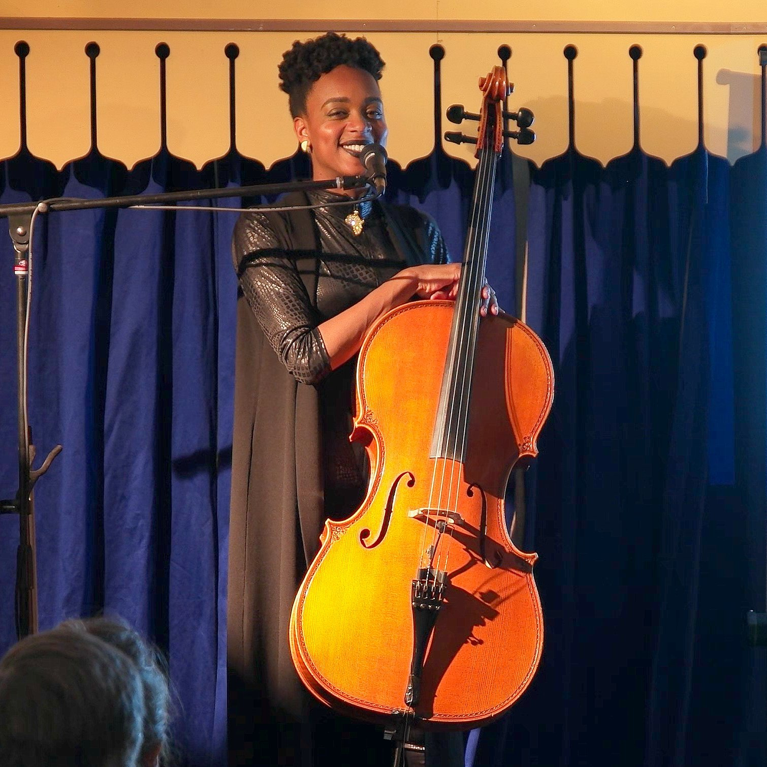 Ayanna Witter-Johnson, performing at the Toy Museum Folk Club, 13th April 2019. Location: Brighton Toy and Model Museum Personality rights warningAlthough this work is freely licensed or in the public domain, the person(s) shown may have rights that legally restrict certain re-uses unless those depicted consent to such uses. In these cases, a model release or other evidence of consent could protect you from infringement claims.